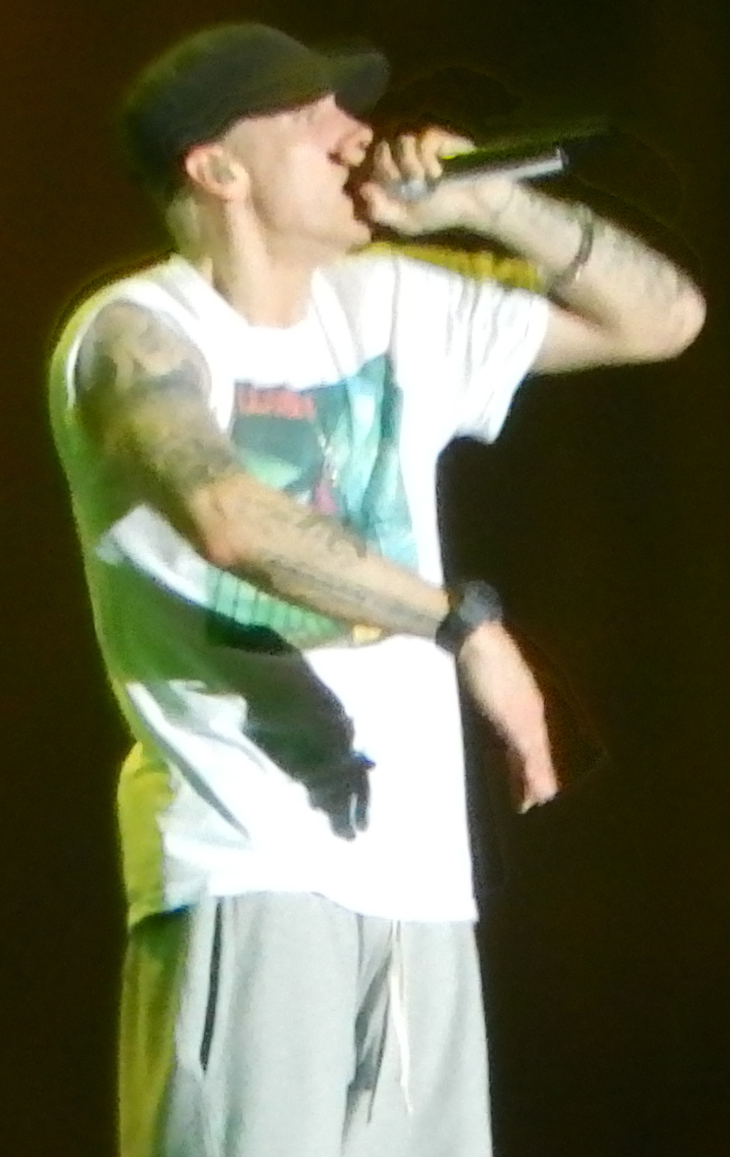 Eminem performing at Lollapalooza 2014 in Chicago